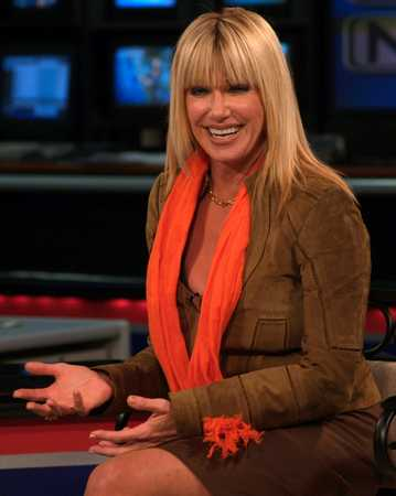 Actor, entrepreneur Suzanne Somers Please acknowledge "Phil Konstantin" as the creator of this photograph.